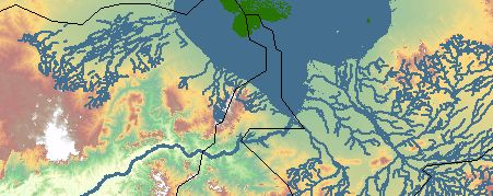 Outlet of Mega Lake Chad to the Benue at the inlet of Logone River (City of Bongor today) and the Alluvial fan of the Chari River.